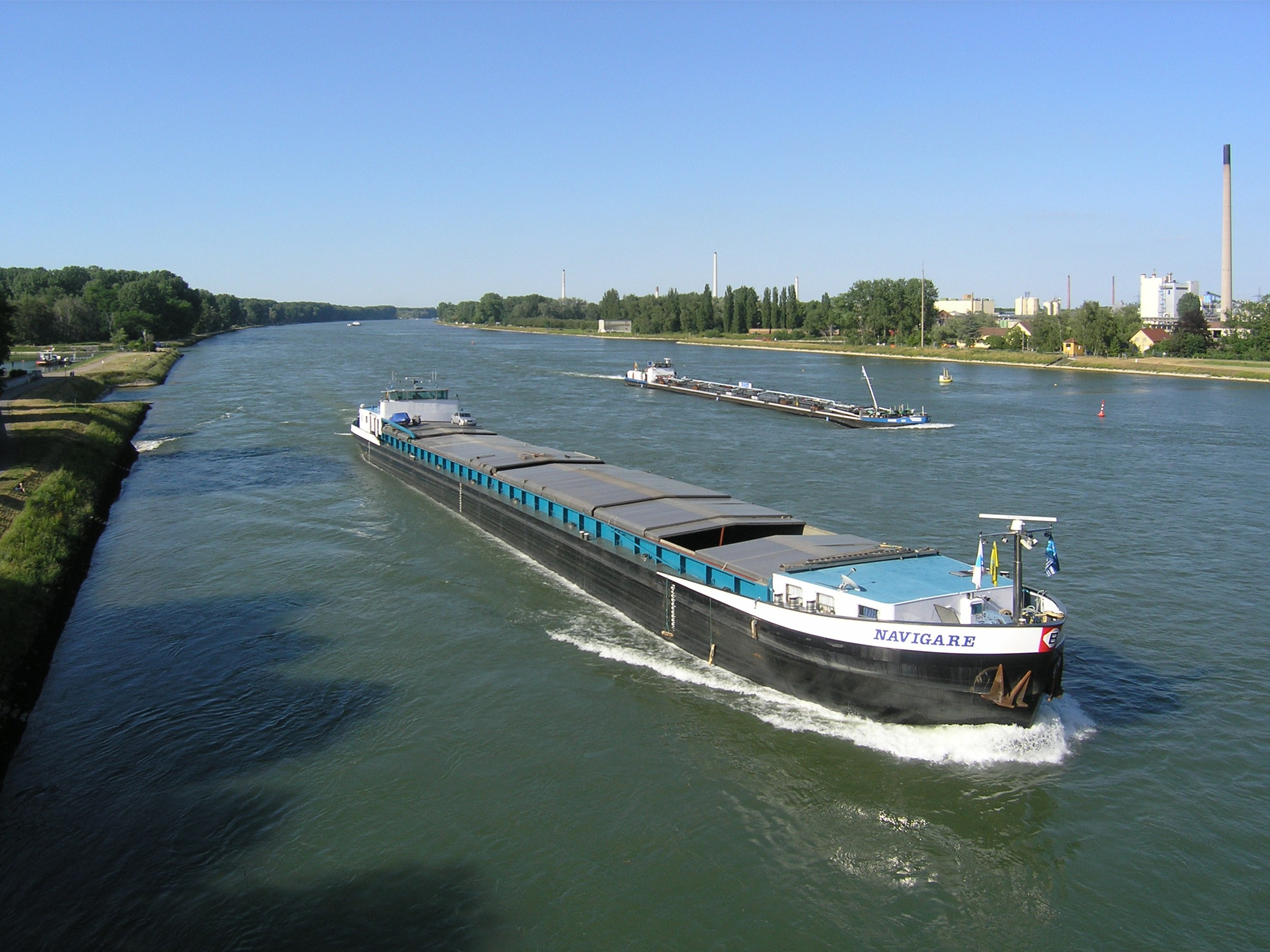 Merchant ships on the Rhine at Karlsruhe. This part of the Upper Rhine war straightened by Tulla, but never regulated by means of dams.